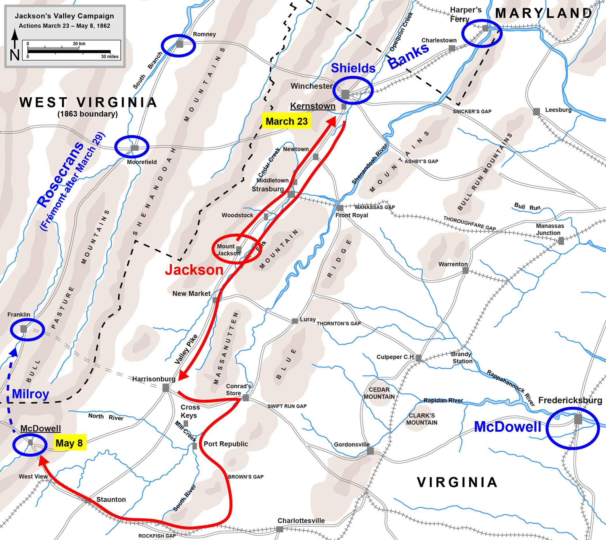 Map of Stonewall Jackson's Valley Campaign, Part 1 of 2